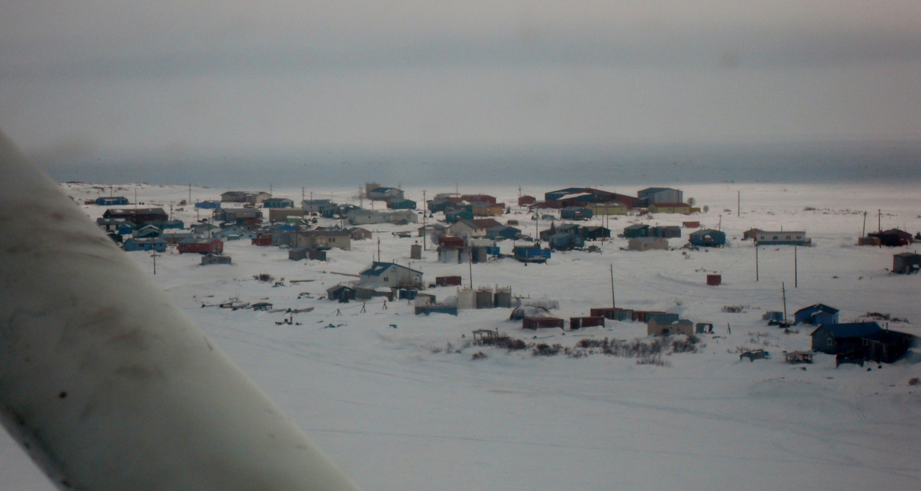 A photo of Eek, AK taken from a Cessna bush plane, March 2012